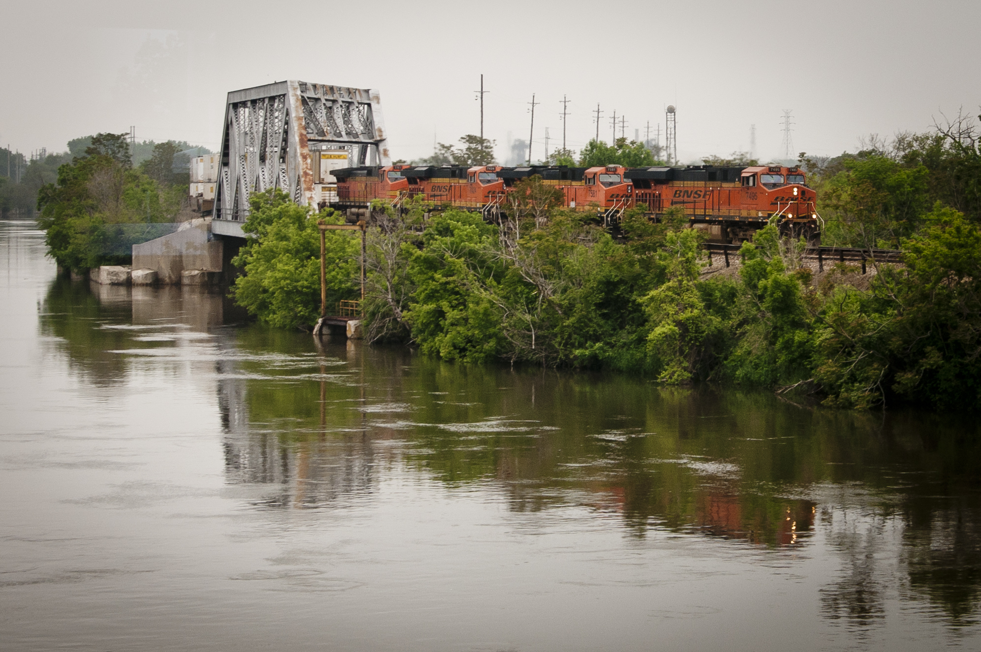 BNSF Freight Crosses the I&M Canal in Joliet, Illinois.